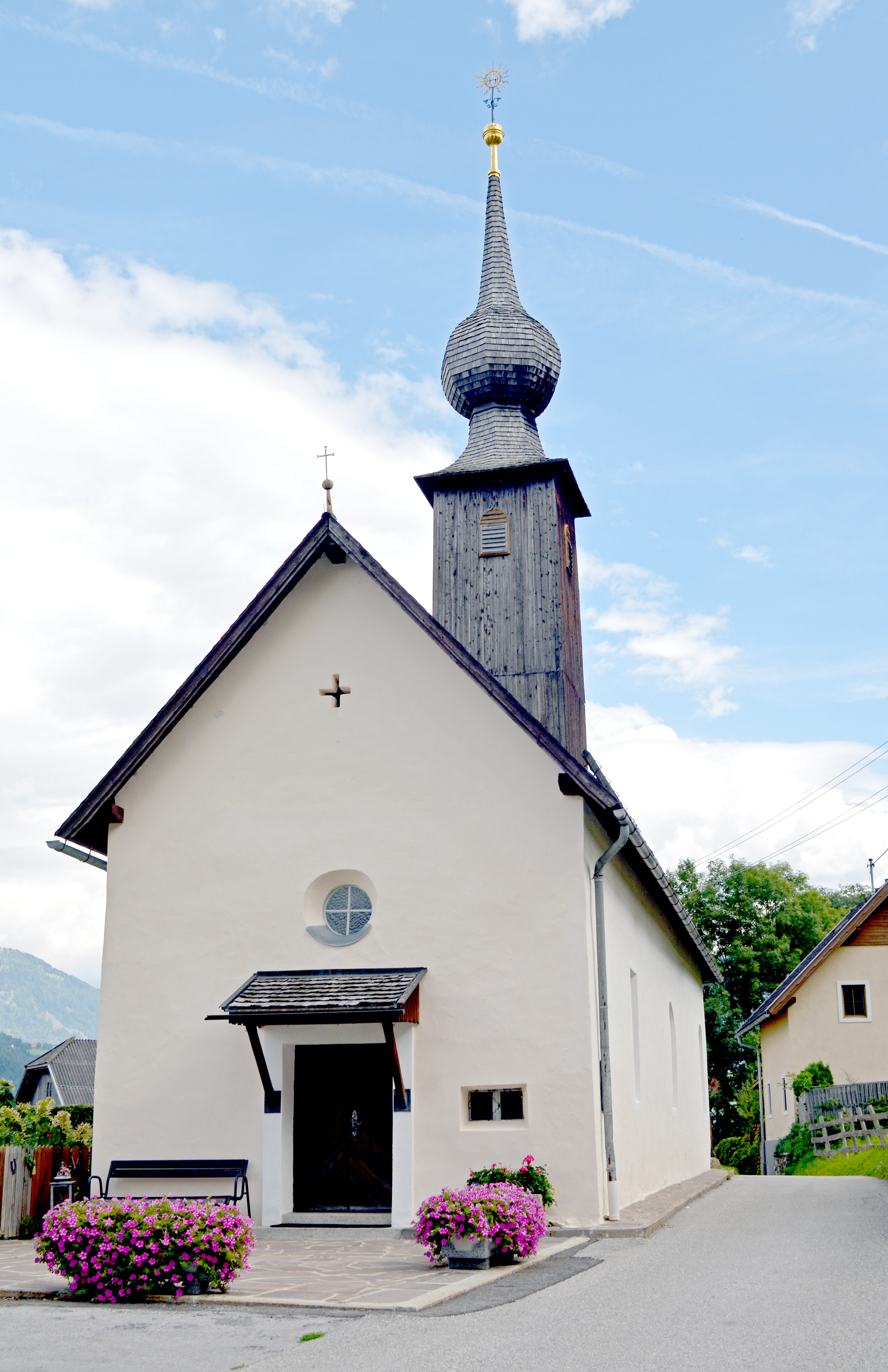 Kath. Pfarrkirche hl. Markus in Amlach, Standort Unteramlach, Spittal an der Drau, Kärnten, Österreich